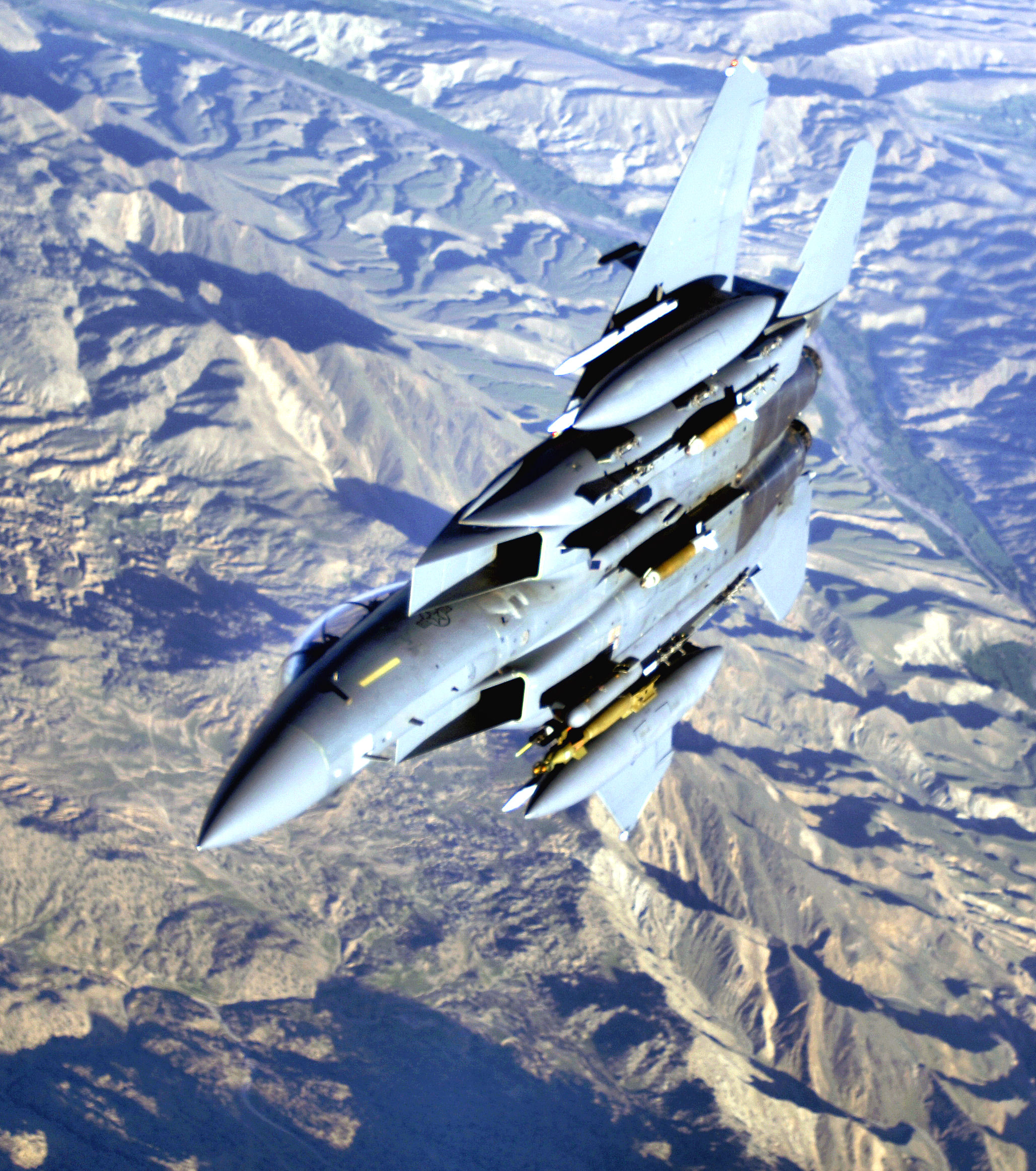 An F-15E Strike Eagle soars over the mountains of Afghanistan in support of Operation Mountain Lion on Wednesday, April 12, 2006. The crew and fighter are deployed to the 336th Expeditionary Fighter Squadron in Southwest Asia from the 4th Fighter Wing at Seymour Johnson Air Force Base, N.C. (U.S. Air Force photo/Master Sgt. Lance Cheung)